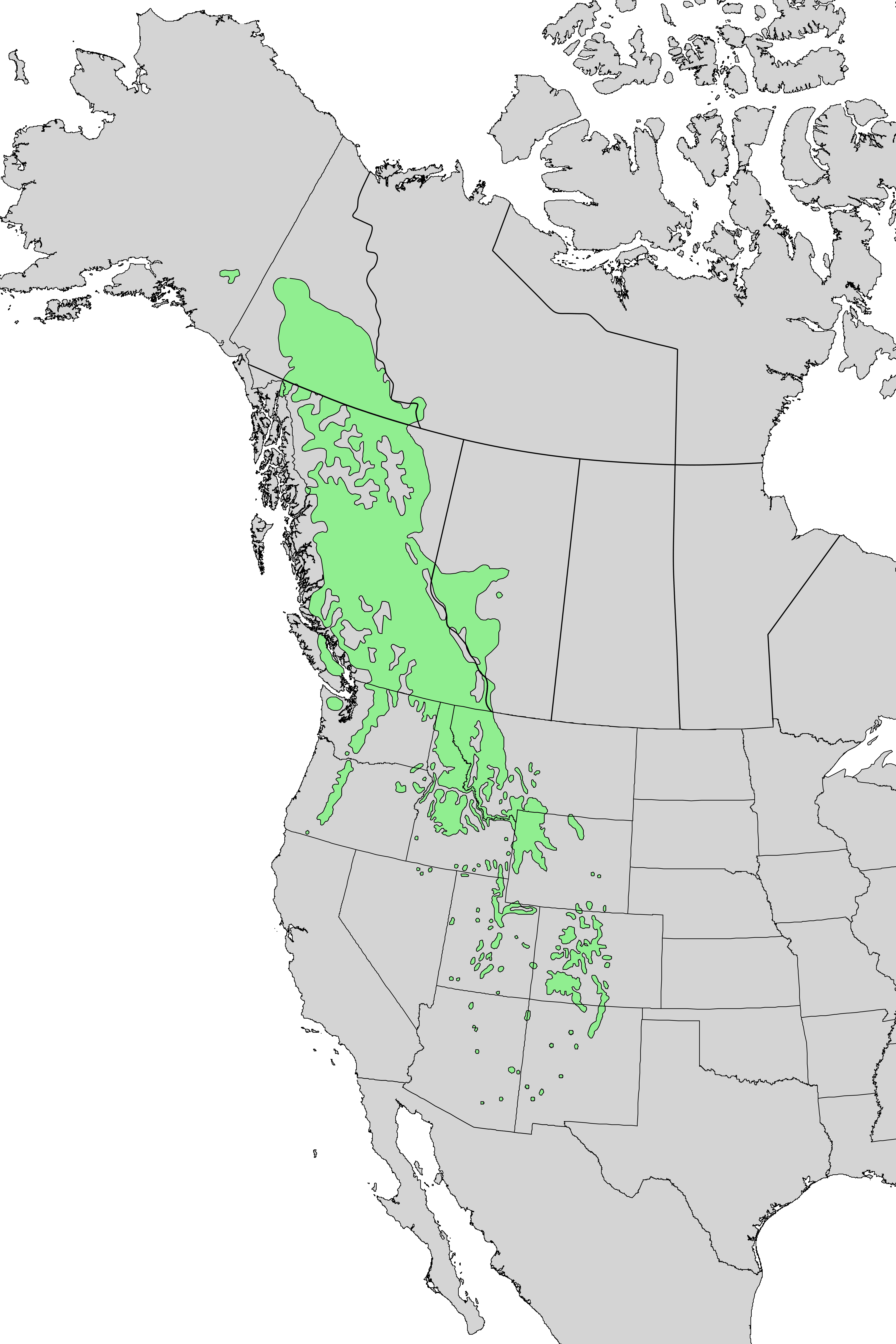 Range map of subalpine fir (Abies lasiocarpa)